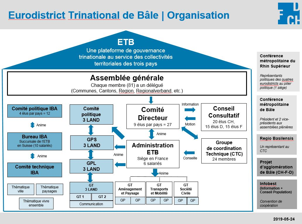 Organigramm de L'Eurodistrict trinational de Bâle